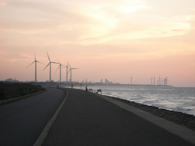 TAYAUN NAHIE BEACH.